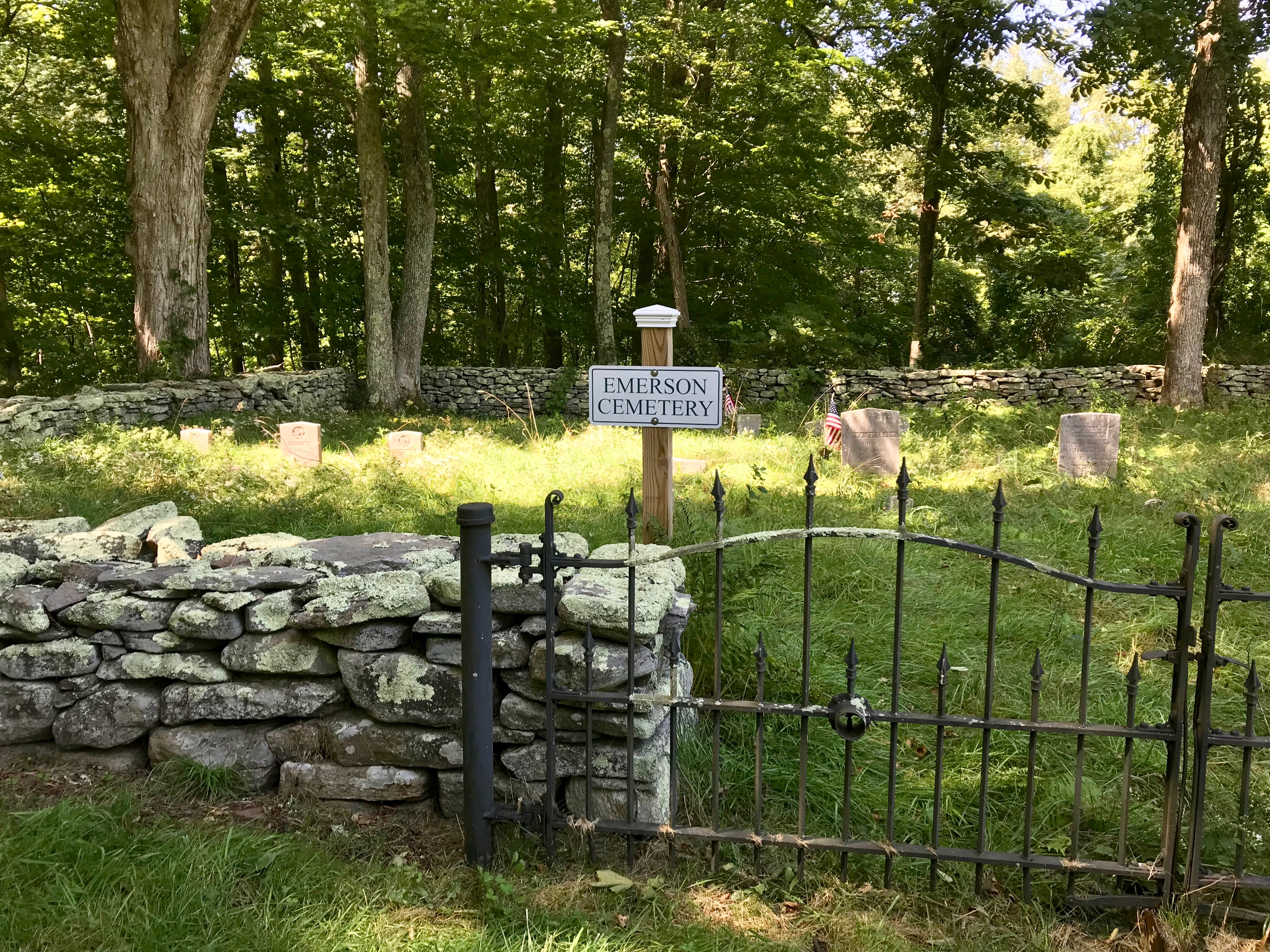 On May 17th, 2018 the donation of the historic Emerson Cemetery on Mount Archer Road by the Jewett Family was accepted by the Town of Lyme Connecticut.